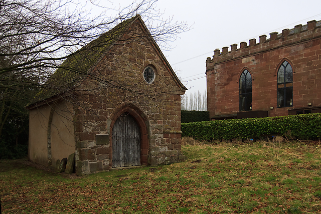 Talbot Chapel, Longford, Shropshire, England, seen from the northwest, with St Mary's parish church in the background